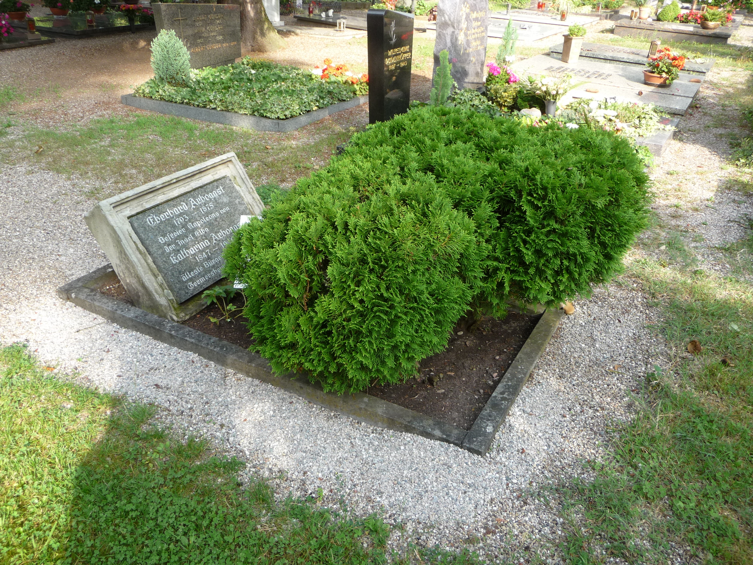 Germersheim